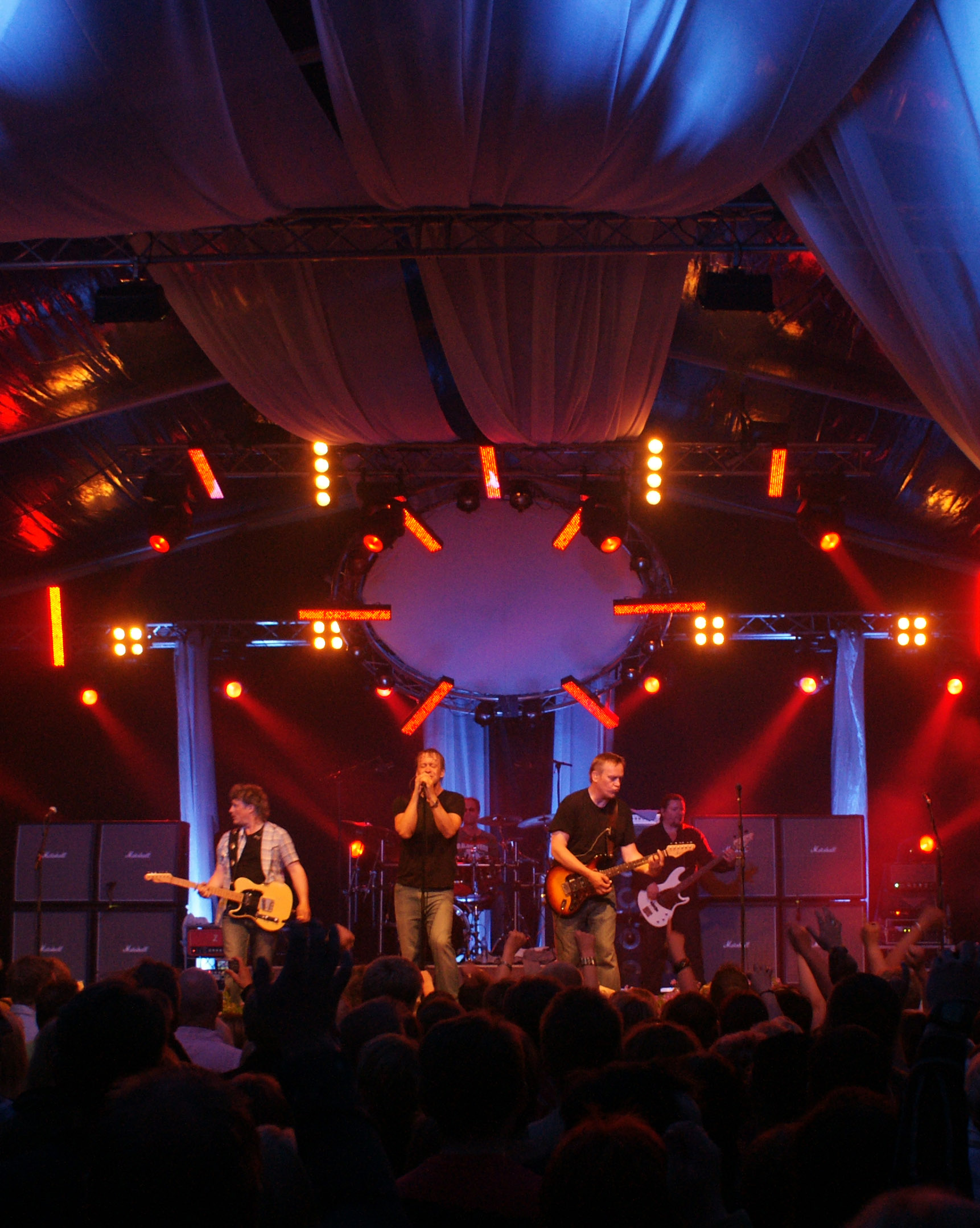 Eppu Normaali at IskelmäNiityt musicfestival in Kiuruvesi 17.7.2009.